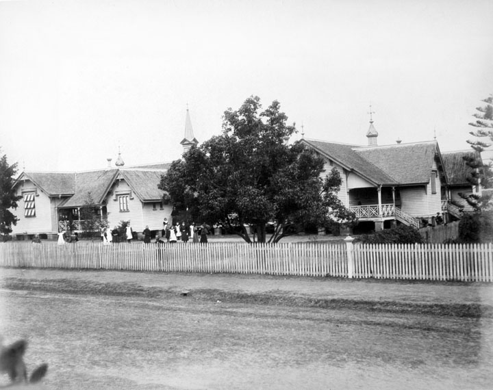 Albert State School, Maryborough.